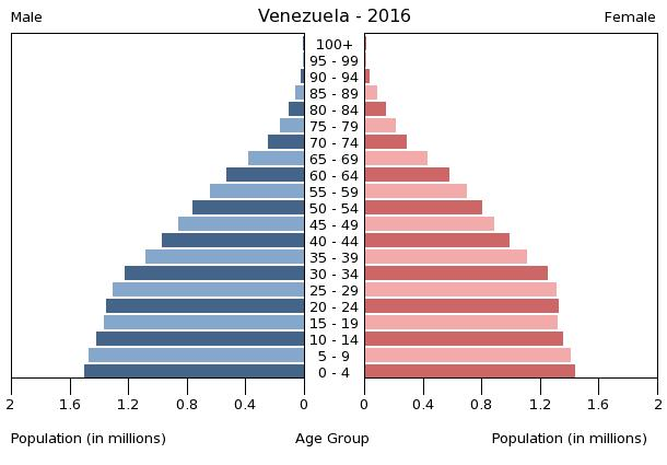 The population pyramid of Venezuela illustrates the age and sex structure of population and may provide insights about political and social stability, as well as economic development. The population is distributed along the horizontal axis, with males shown on the left and females on the right. The male and female populations are broken down into 5-year age groups represented as horizontal bars along the vertical axis, with the youngest age groups at the bottom and the oldest at the top. The shape of the population pyramid gradually evolves over time based on fertility, mortality, and international migration trends.